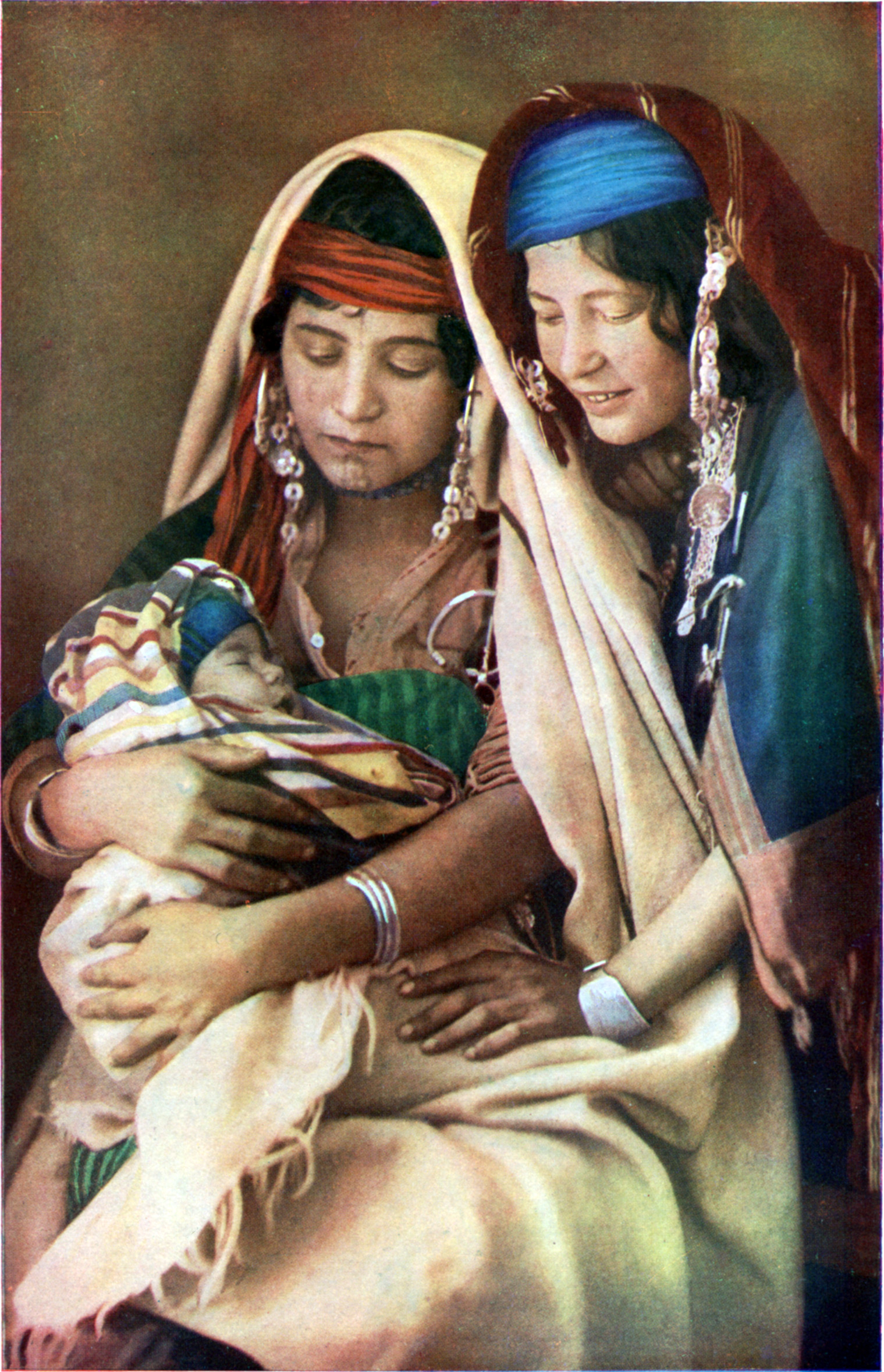 The Beduin woman's fondness for richly coloured clothing and fantastic detracts nothing from her devotion to her offspring.